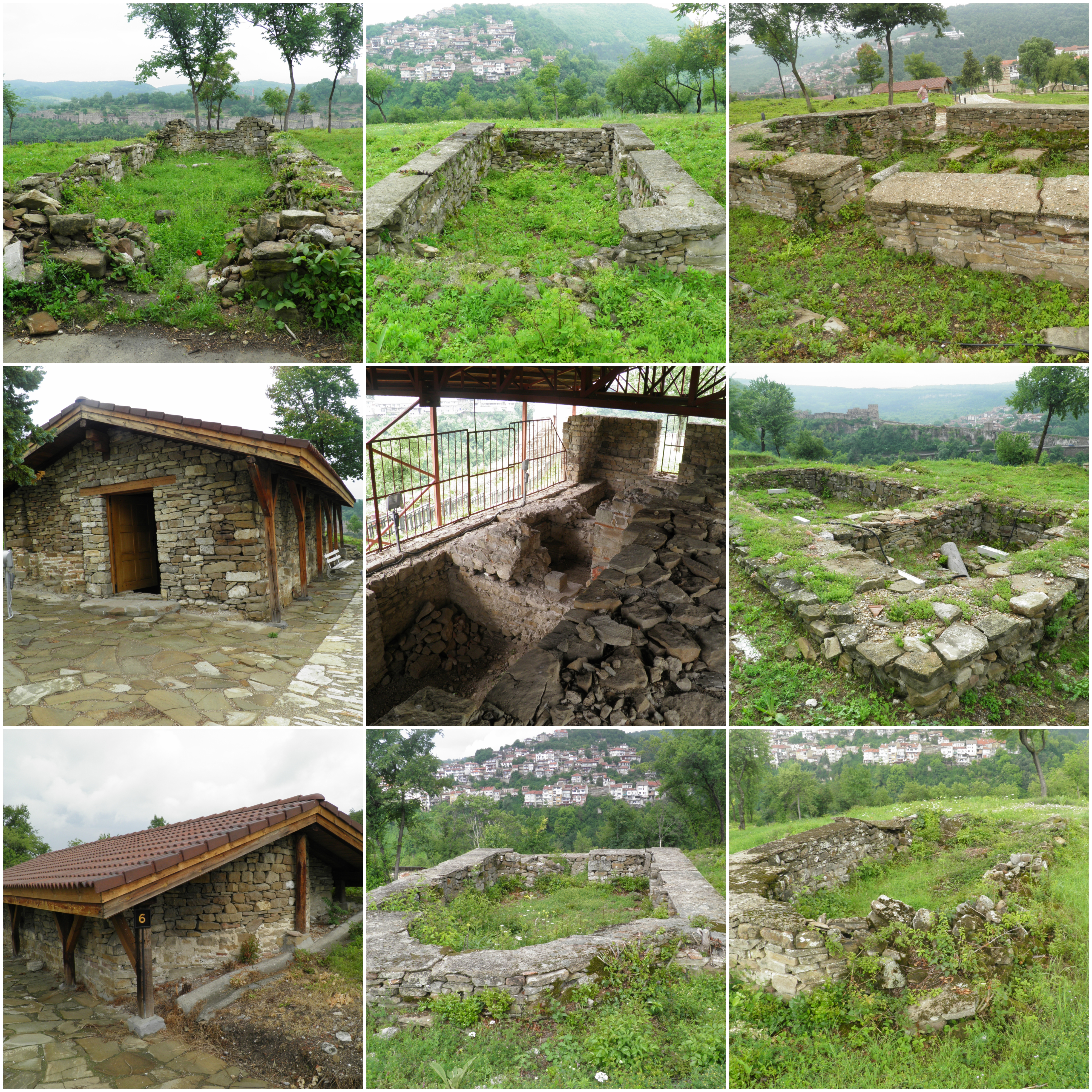 Trapezitsa Hill,Churches Ruins,Veliko Tarnovo